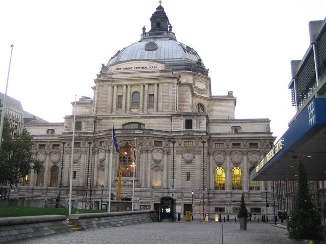 Westminster: Methodist Central Hall The Hall was completed on the west side of Storey's Gate in 1912 to commemorate the 100th anniversary of the death of John Wesley, the founder of Methodism. A full history can be found at the Central Hall website here